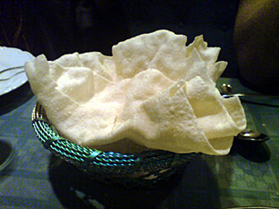 Papadam bread